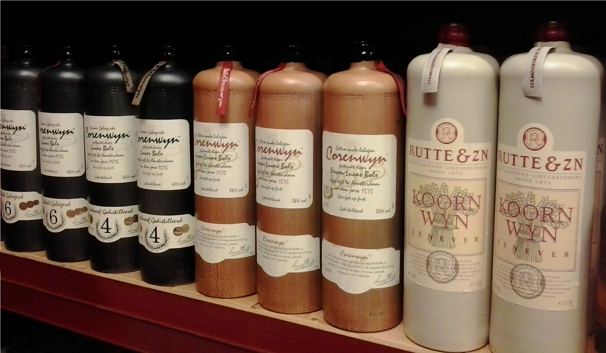 Bottles of Dutch corenwyn